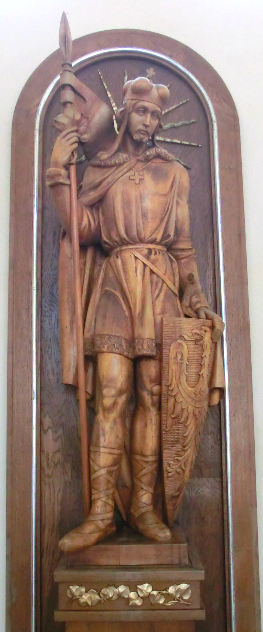 Statue of St. Vaclav in Assumption Church Jeseník